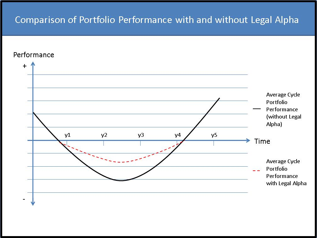 Comparison of Portfolio Performance with and without Legal Alpha showing an average cycle